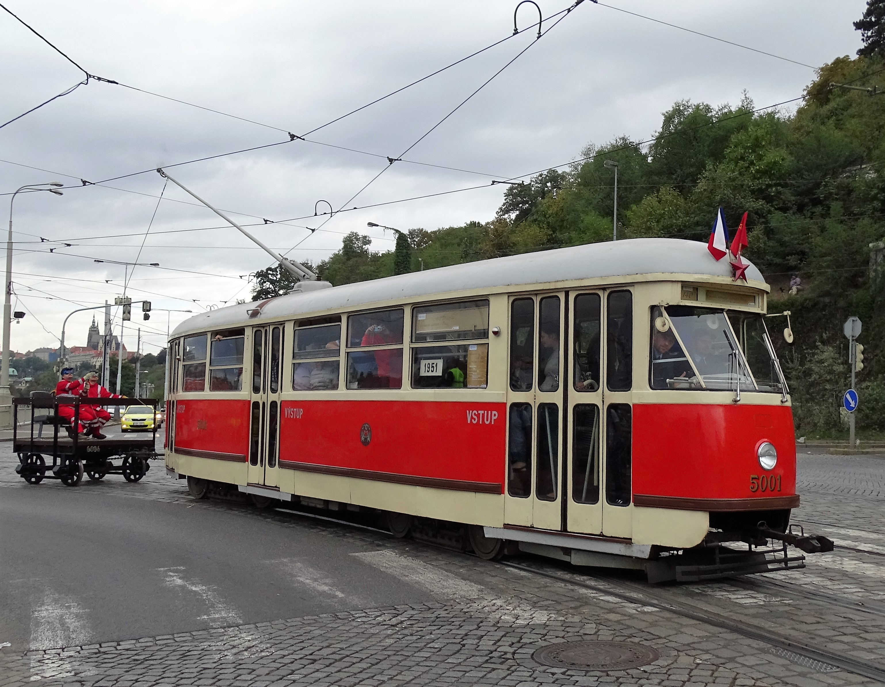 Prague-Holešovice, Czech Republic. Nábřeží Kapitána Jaroše, a tram parade, tram #5001 + #6006.